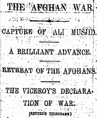 Reuters clipping of Ali Masjid battle